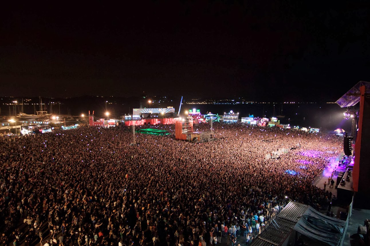 Optimus Alive'13 crowd while Depeche Mode were performing on Optimus Stage.